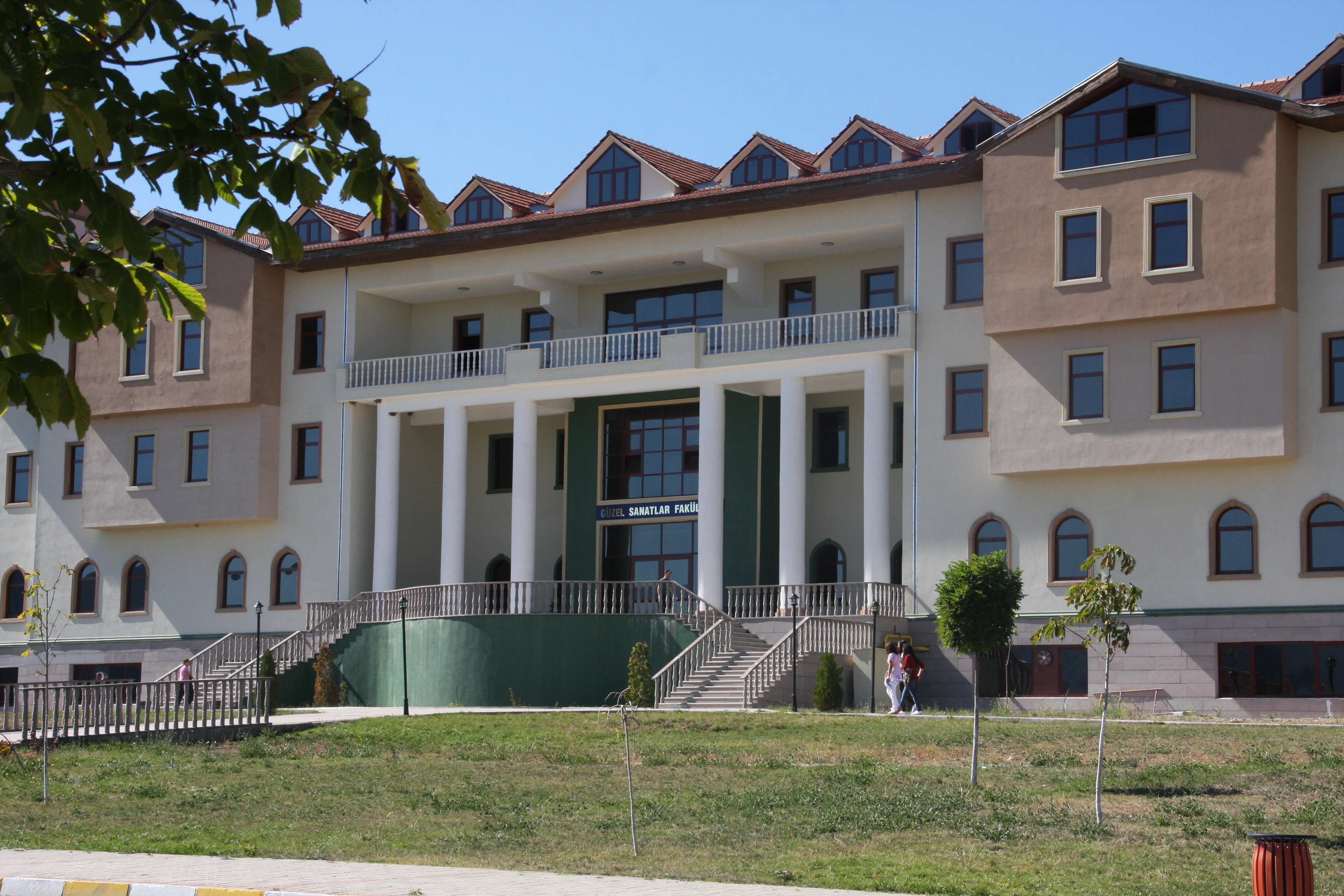 Kütahya Dumlupınar University, Faculty of Fine Arts